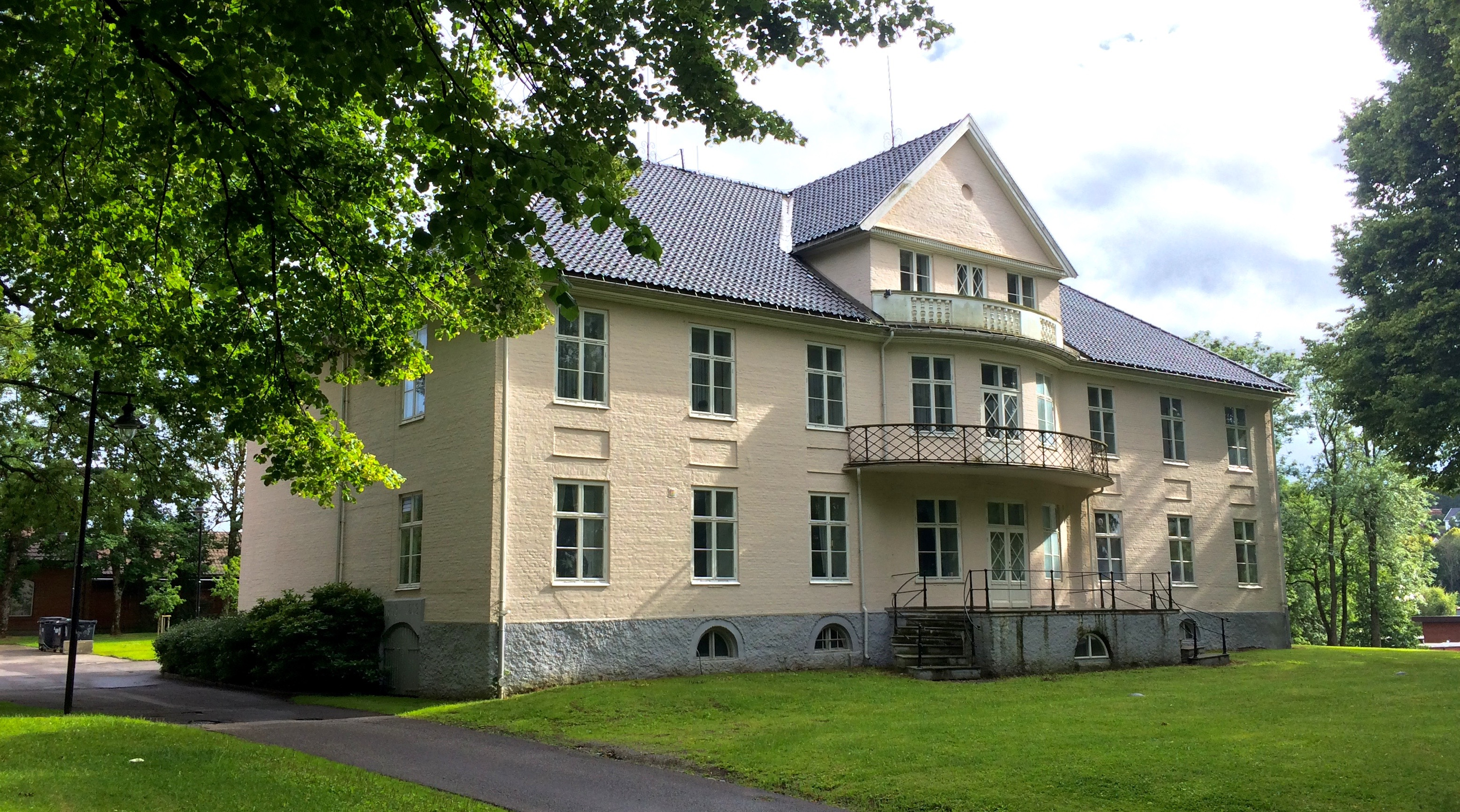 Teie hovedgaard Toensberg 2015-07-21 a